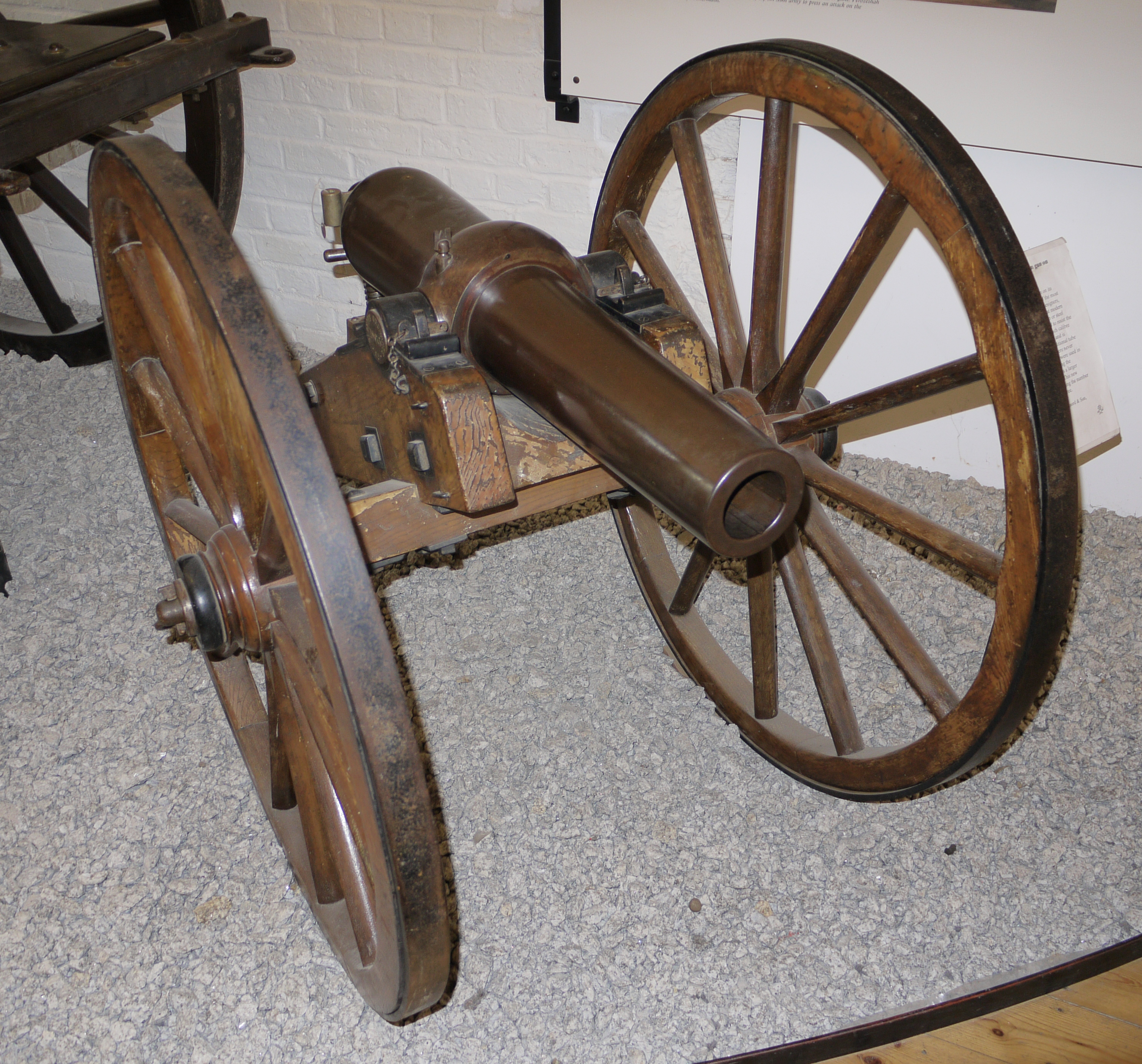 Photo of a Blakely rifle 2.75 inch. Original carriage